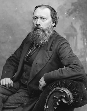 1 negative : glass, wet collodion, b&w ; 11 x 16.5 cm.